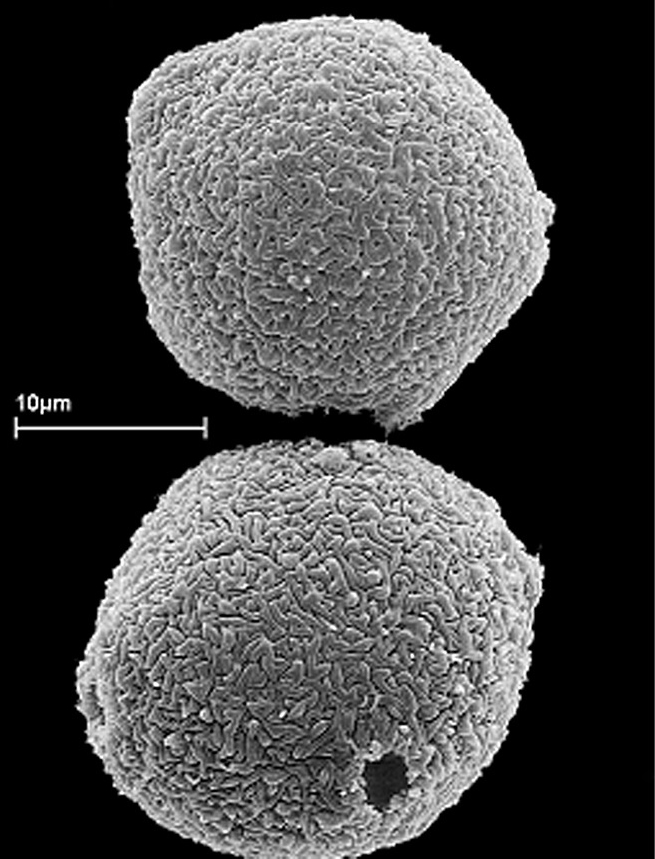 Pollen of Allophylastrum frutescens. Polar view of 5-angualr grain (top), oblique equatorial views of a 5-angular grain showing 3 pores. All from R.H. Schomburgk 336 (W).